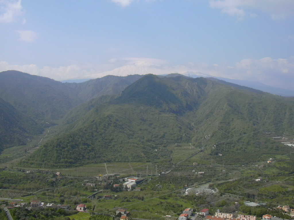 The Alcantara Valley with the Etna in the background. View from the village of Motta Camastra (prov. of Messina).